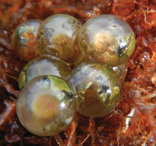 Phrynopus curator (MUSM 31106) eggs. Photo by E. Lehr.